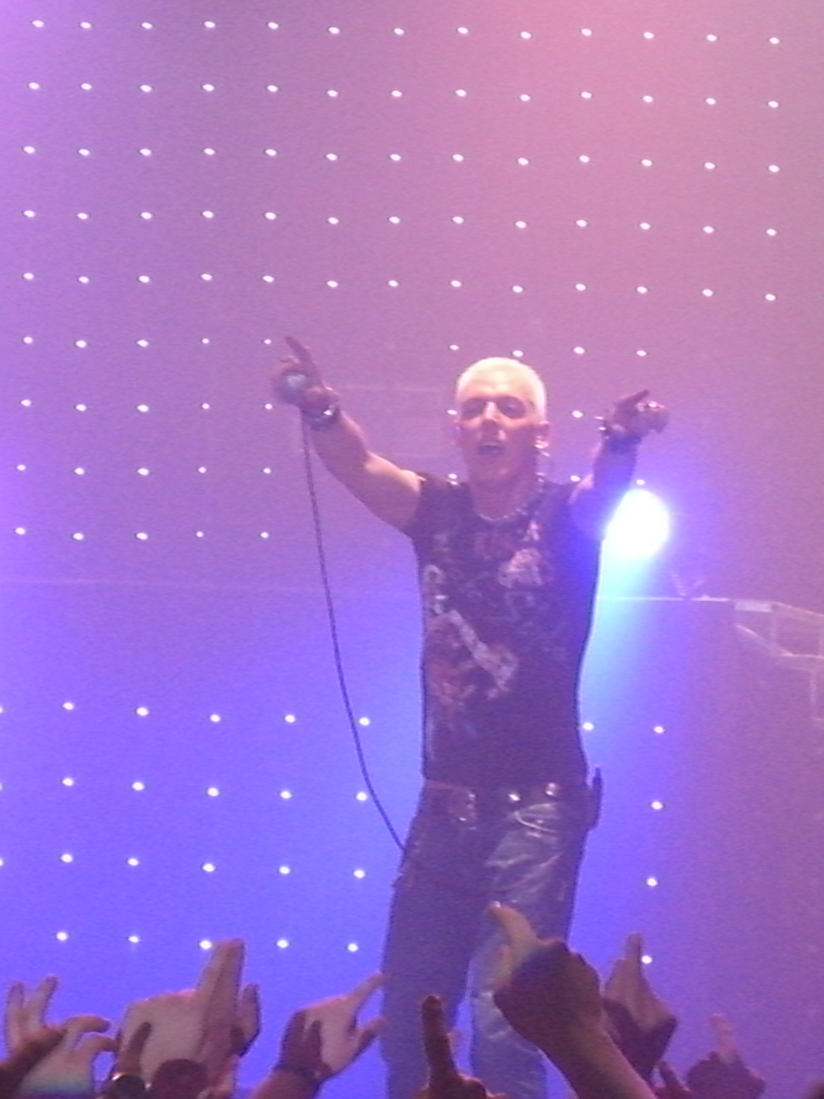 Scooter on its "Jumping all over the World"-tour at the Zenith in Munich 2008